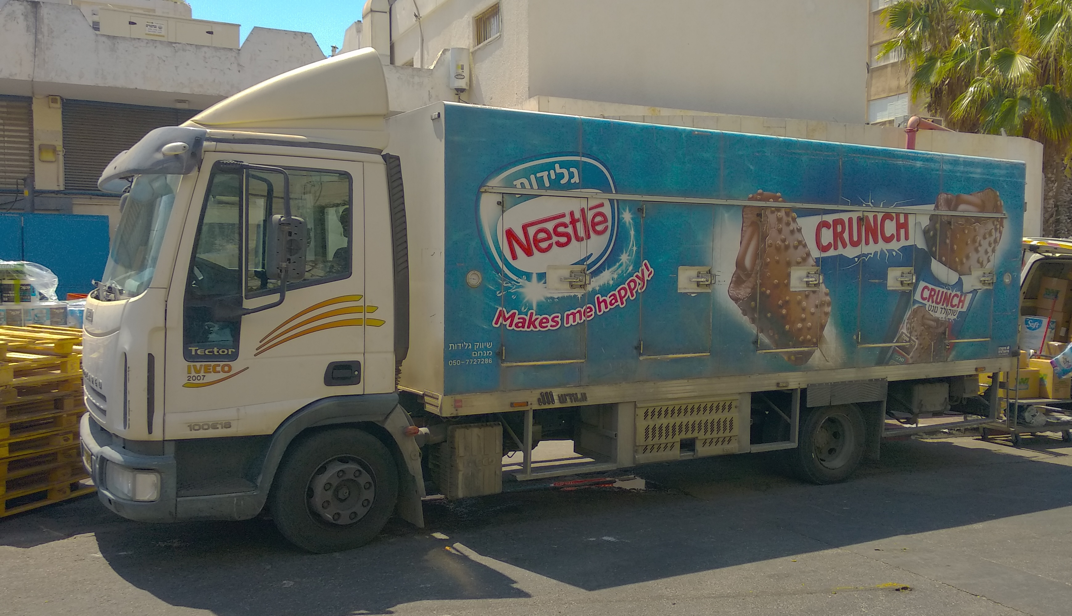 Nestlé Israel ice cream delivery truck